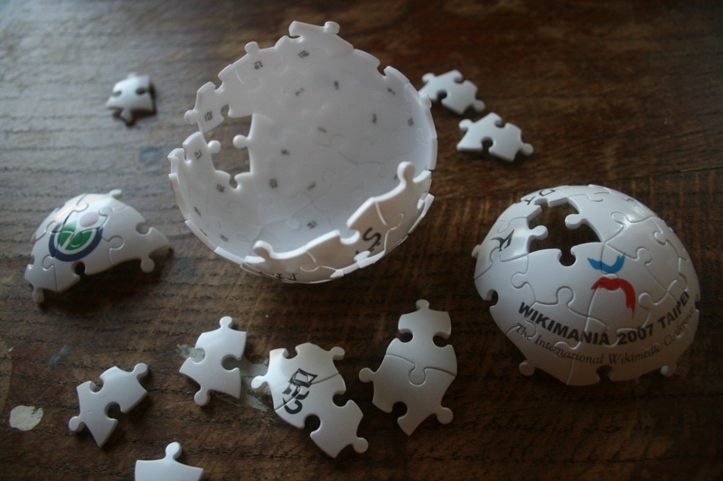 Post Script: the Wikimania puzzle globe